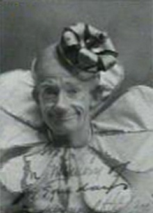 A photo/signed autograph of vaudevillian and silent film star Raymond Hitchcock.